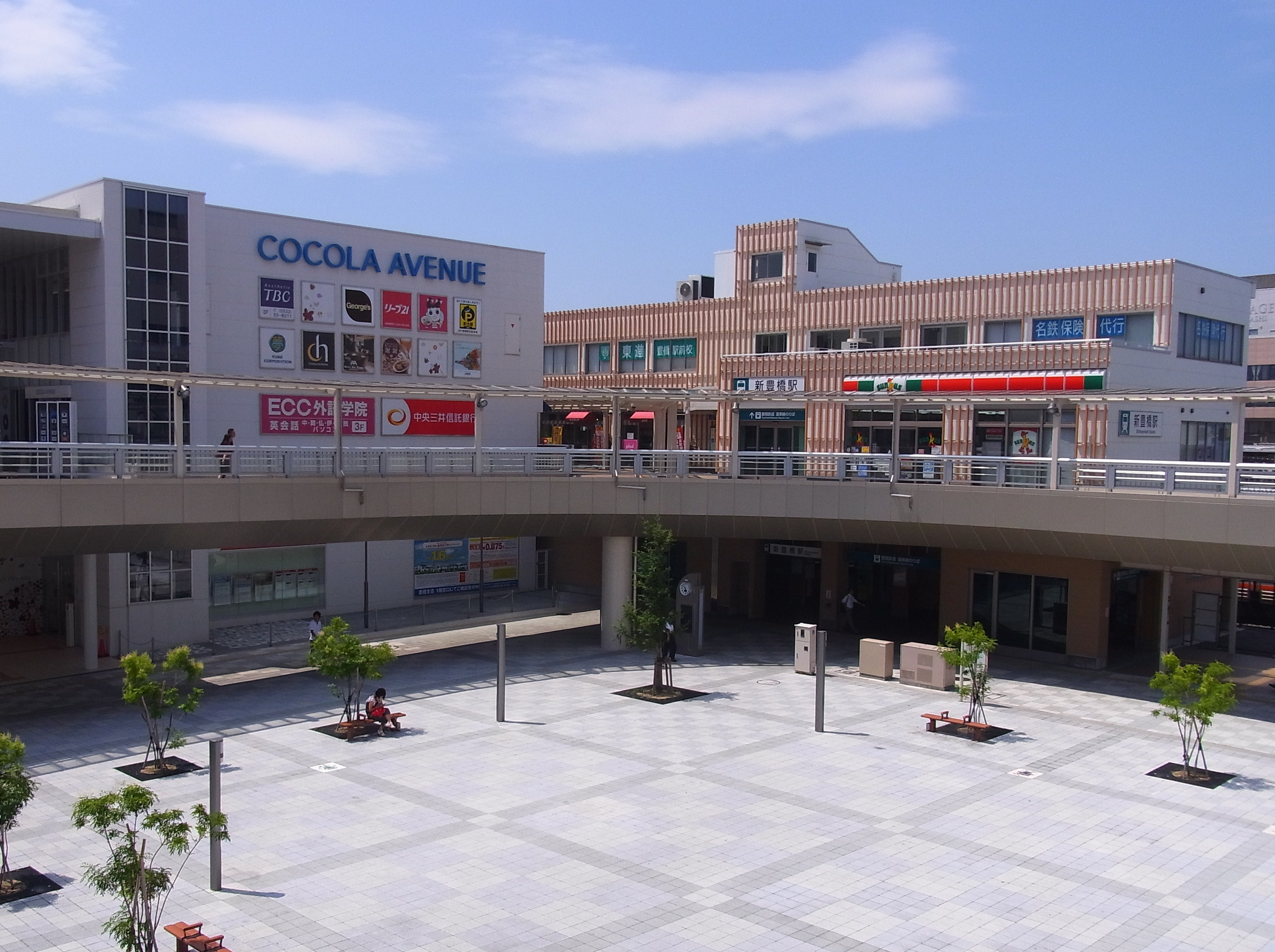 Shintoyohashi Station in Toyohashi City, Aichi Prefecture, Japan.